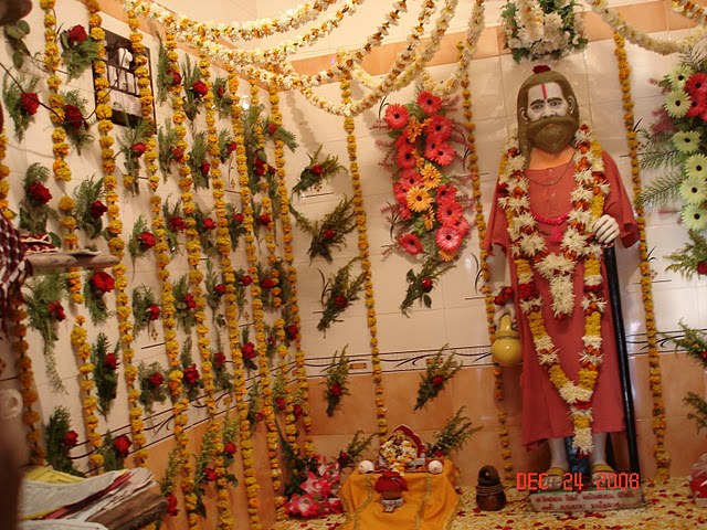 Nanadiya